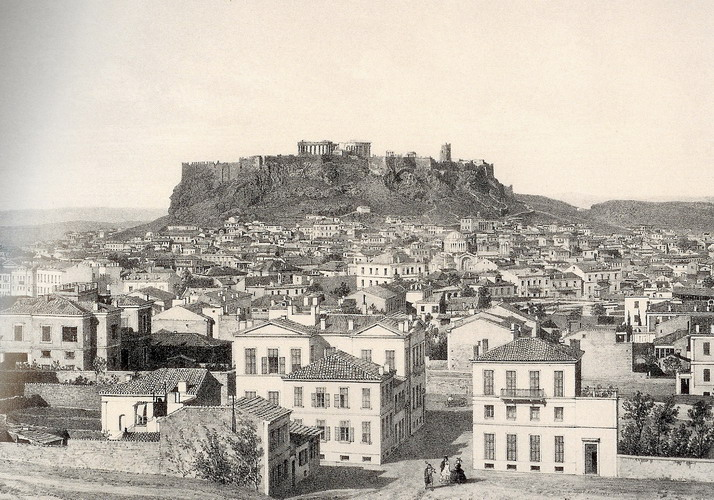 Athens in 1861